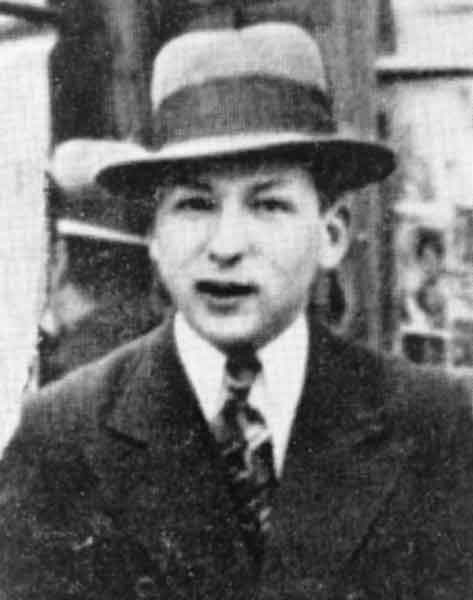 Leon Rodal, Polish-Jewish journalist and Warsaw Ghetto Uprising commander.